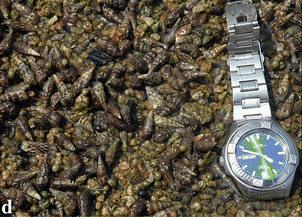 Photo of aggregation of Batillaria zonalis and Clithon oualaniense on the ground between Rhizophora trees planted in 2004 in Dam Bay.